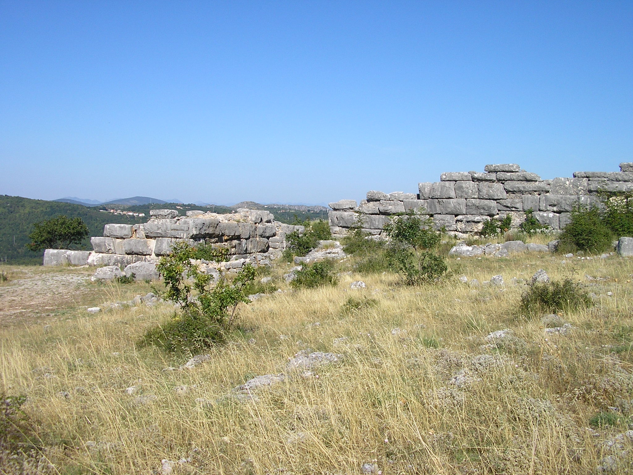 Daorson near Stolac